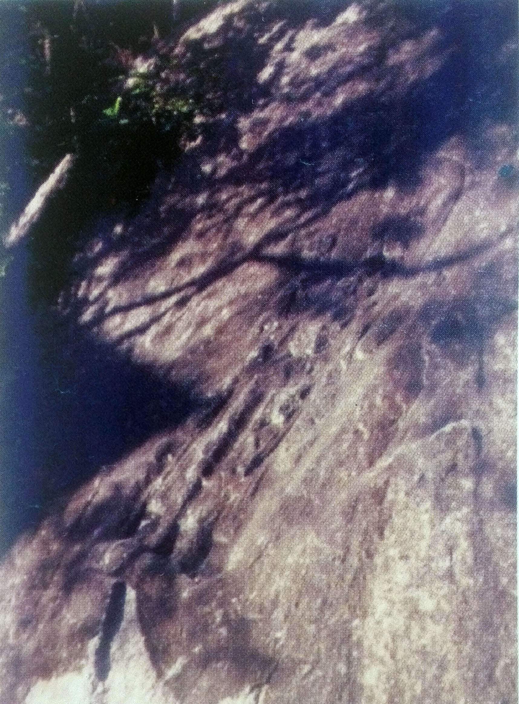 Buddhist Rock Carvings in Manglawar